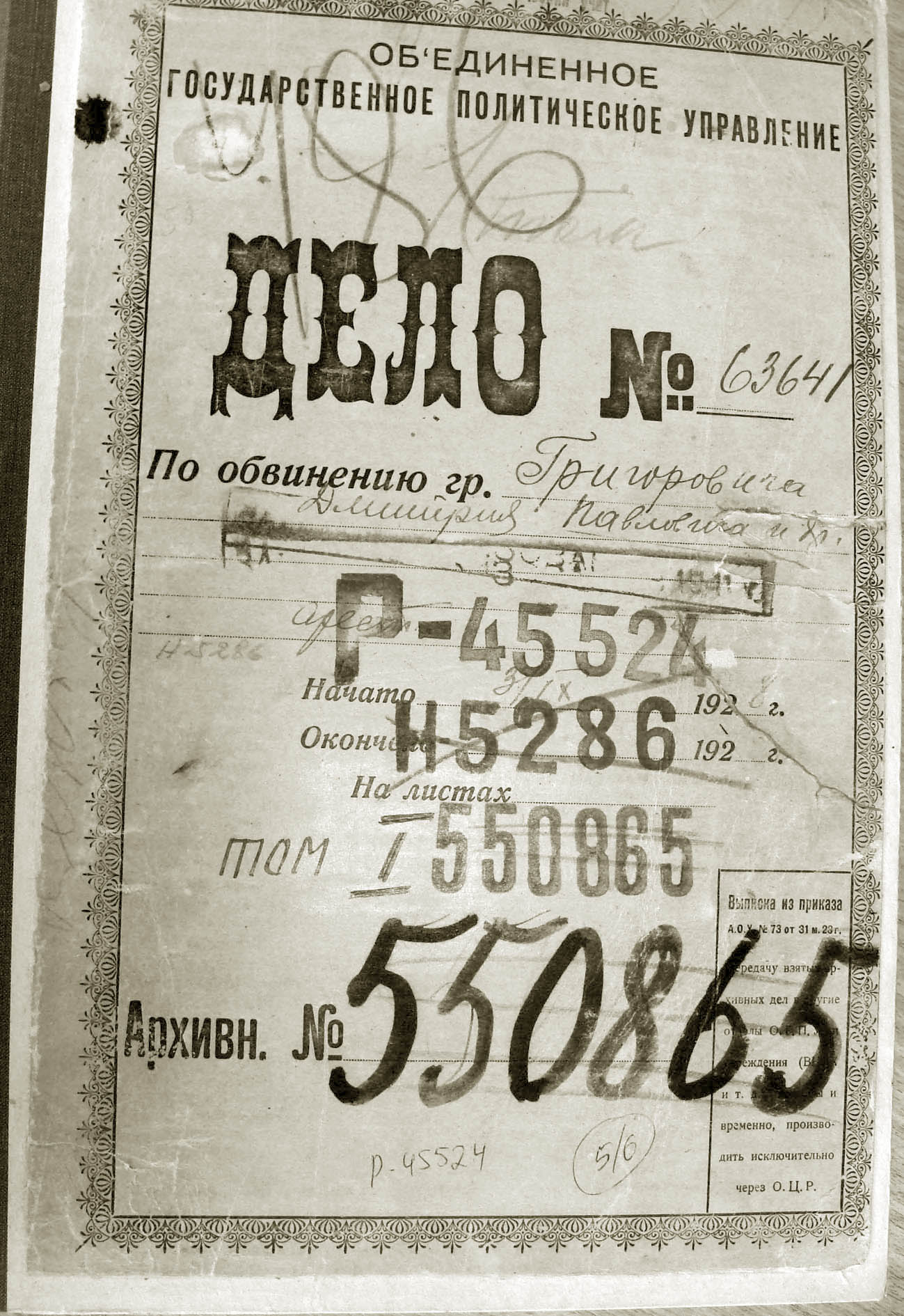 Следственное дело Д.П. Григоровича, В.Л. Корвин-Кербера, А.Н. Седельникова, А.Д. Мельницкого и В.М. Днепрова 1928-29 гг.